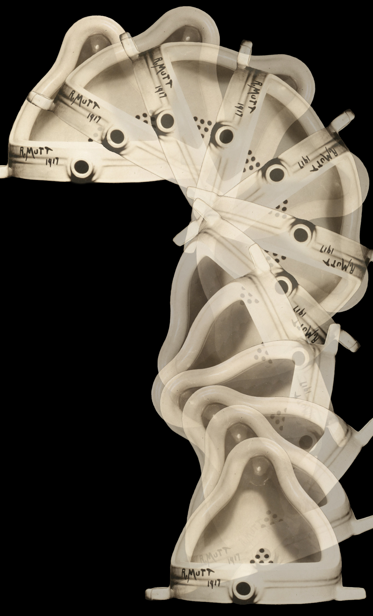 Fountain Descending a Staircase, No. 2, after Marcel Duchamp's Fountain, and Nude Descending a Staircase, No. 2, showing a 360° rotation of Duchamp's original 1917 Fountain.